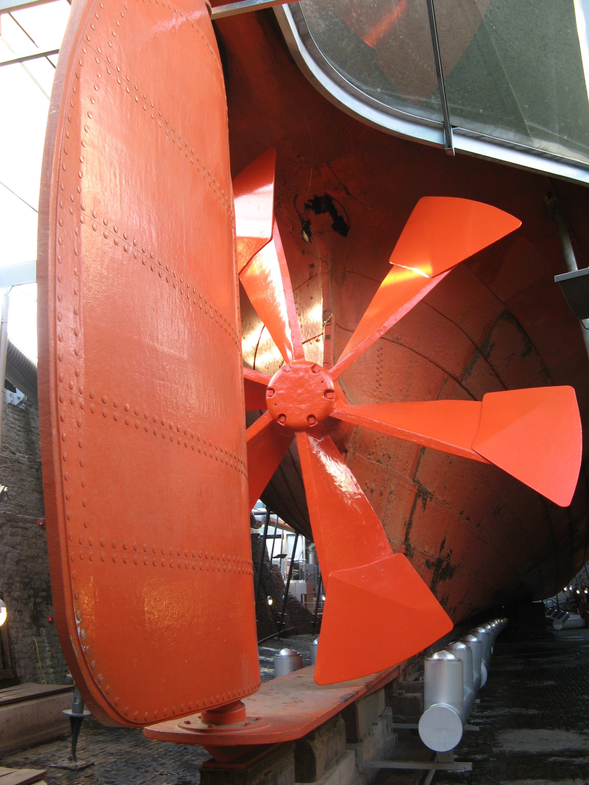 Rudder and screw of Brunel's S.S. Great Britain